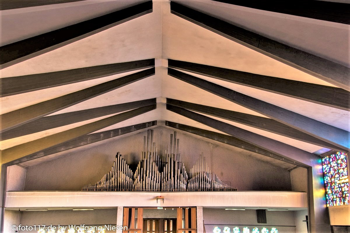 Pipe Organ of Saint Maurice church Saarbrücken